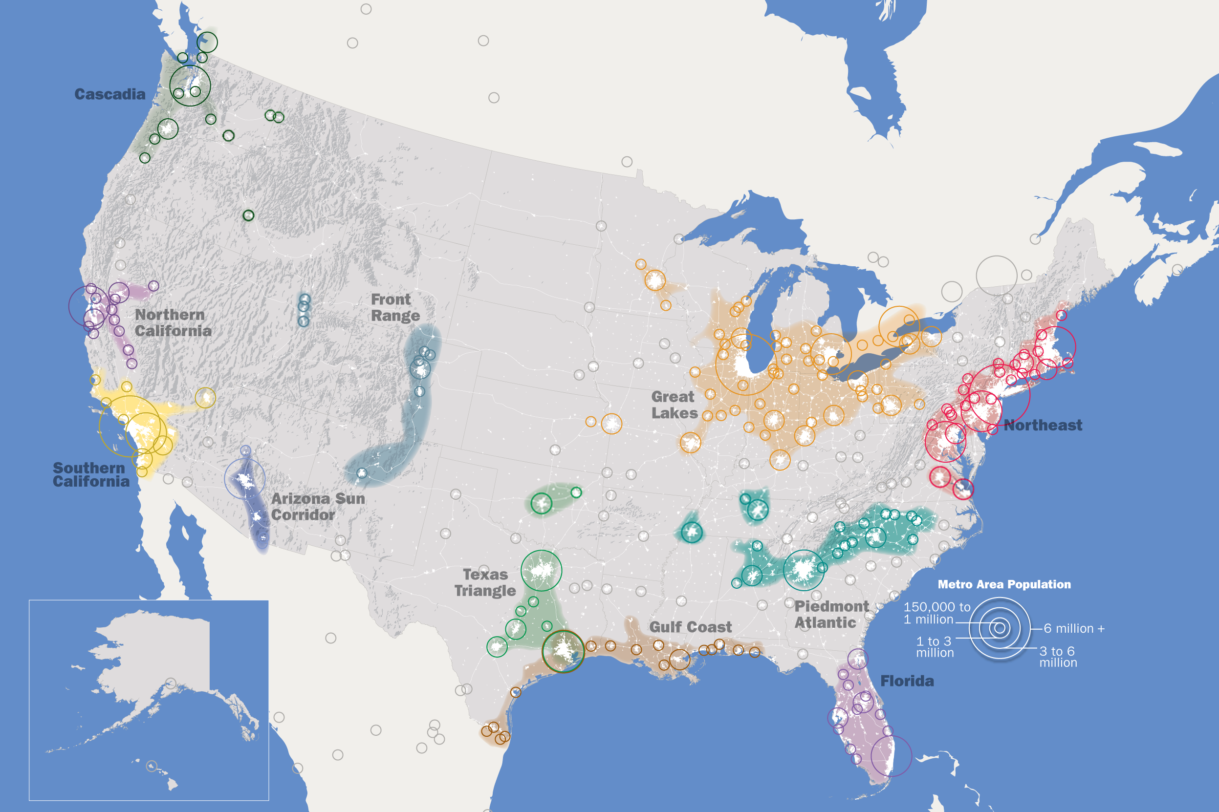 This map, created by the Regional Plan Association, illustrates eleven metropolitan areas that are growing into megaregions.